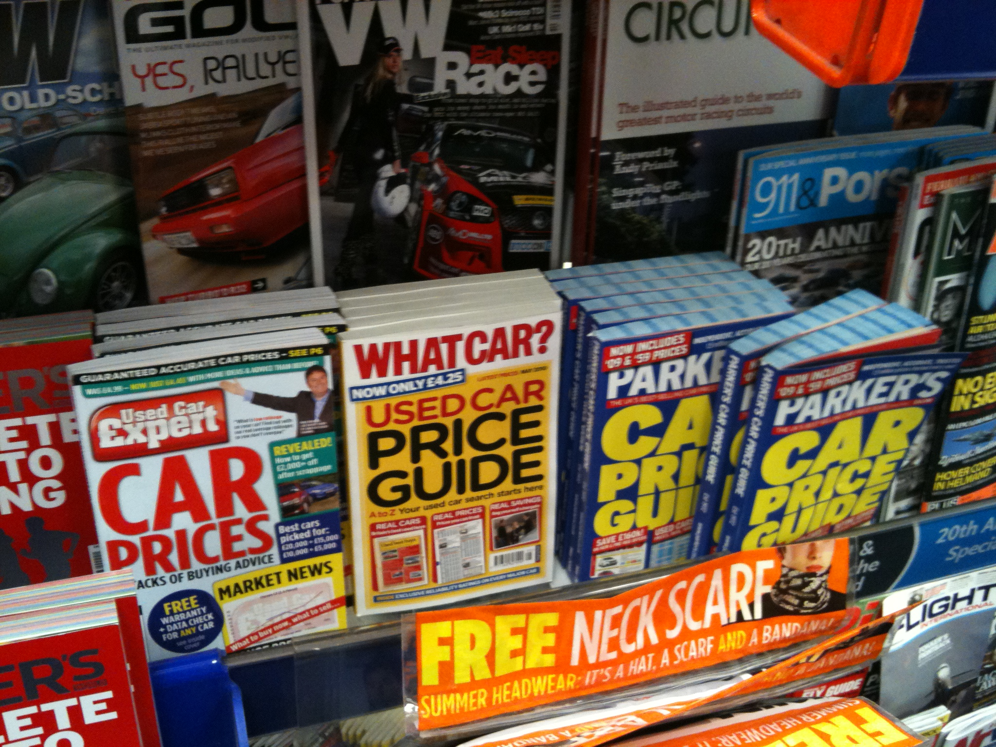 A magazine rack in WH SMith Newsagents showing 3 car price magazines